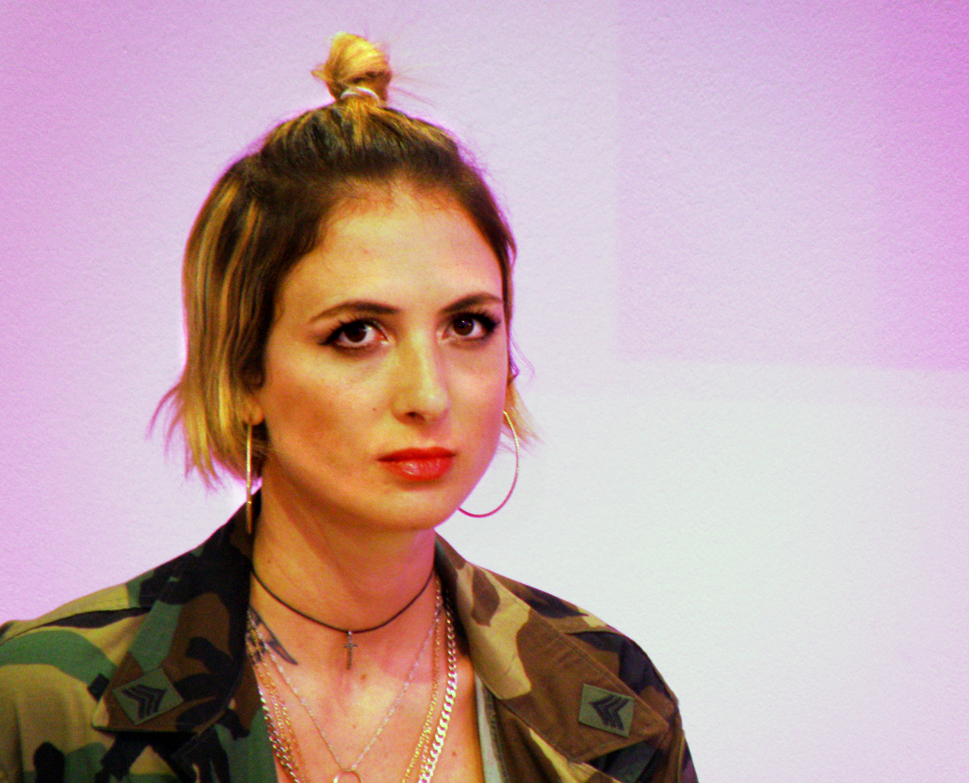 Ema Stokholma (Morwenn Moguerou), as radio presenter, at Wired Next Festival, Milano, May 2018.